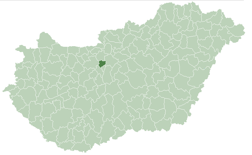 Location of subregion Budaörs, Hungary